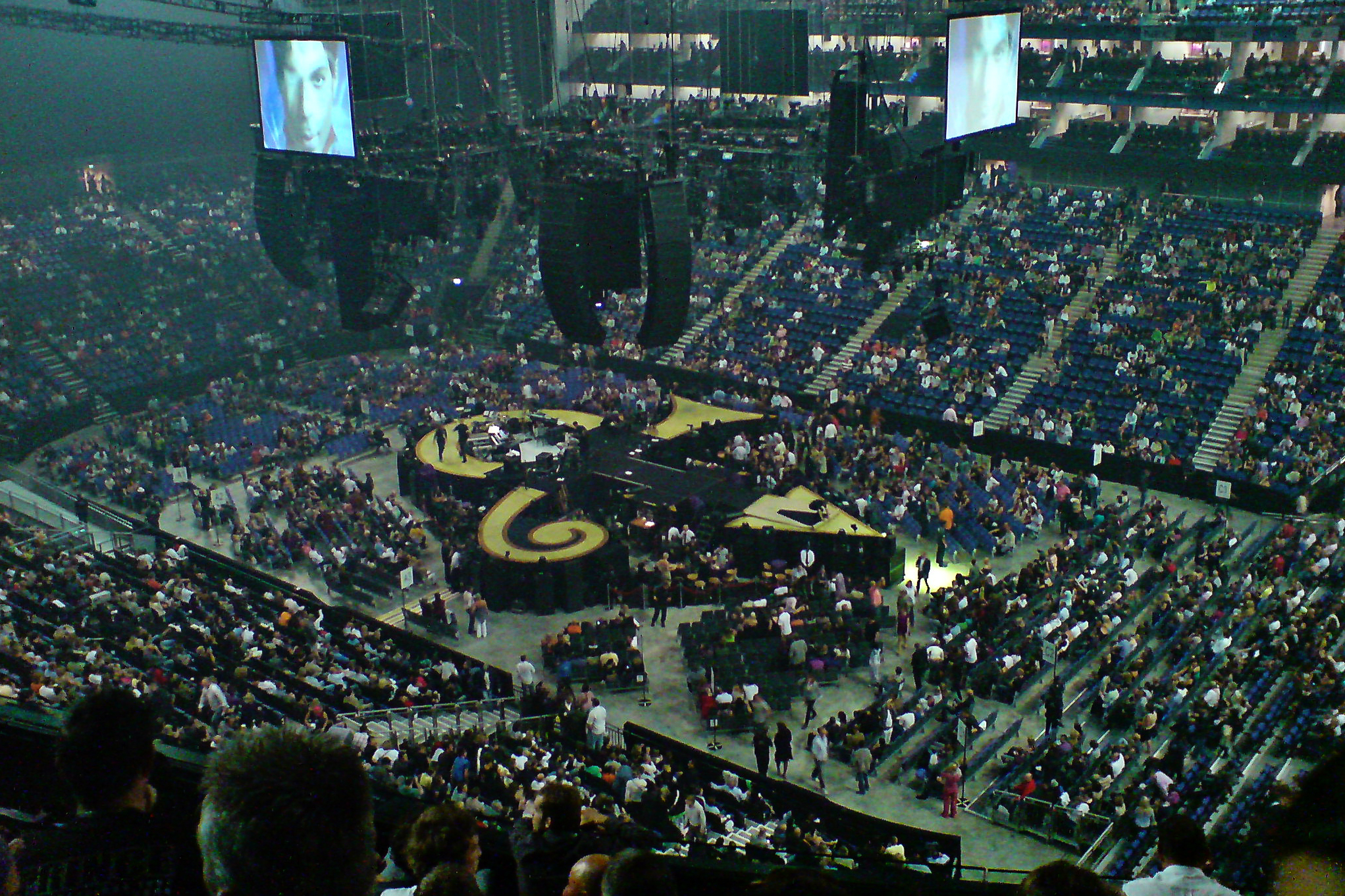 Waiting for the Man